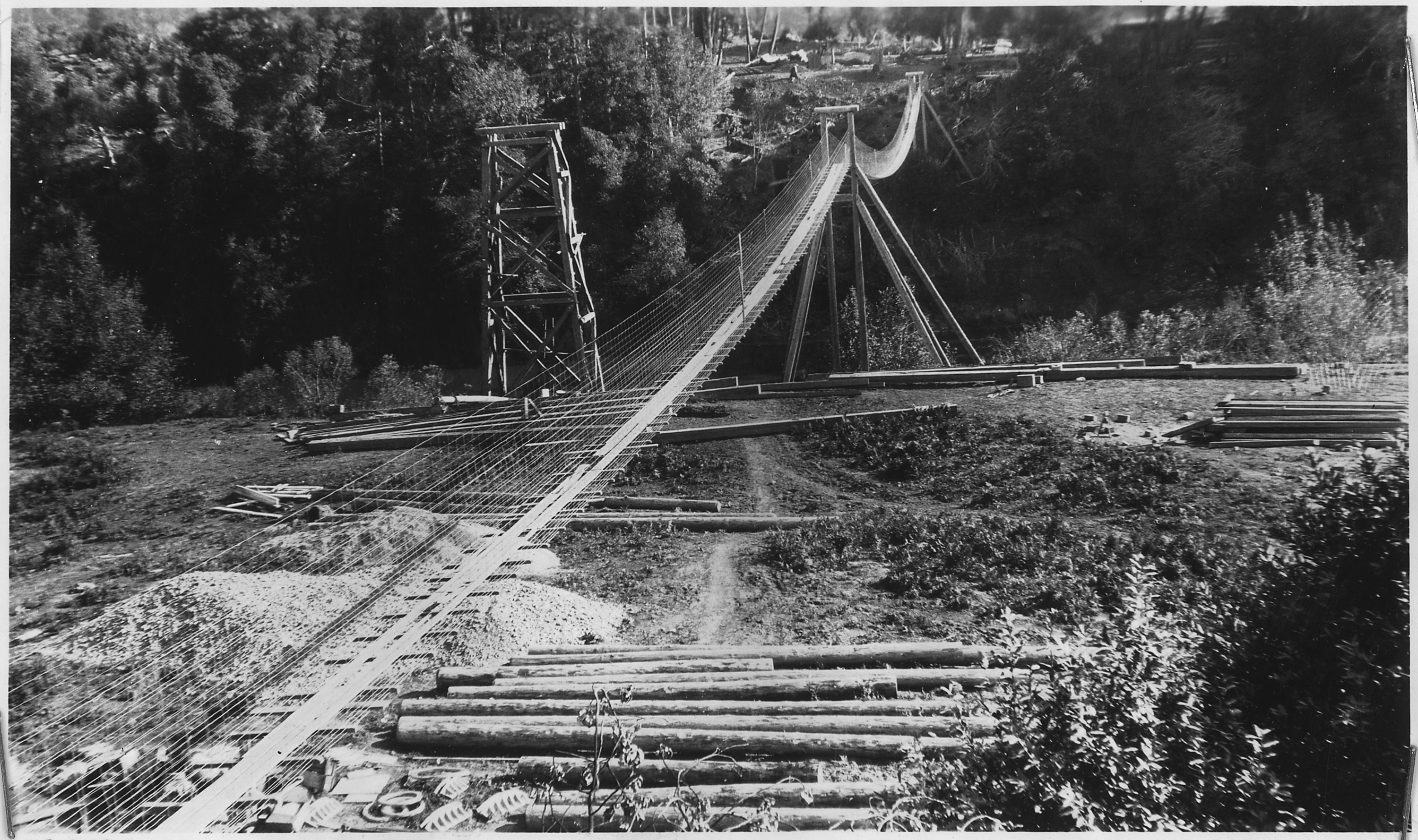 Scope and content: Agness Bridge over Rogue River in Siskiyou National Forest.